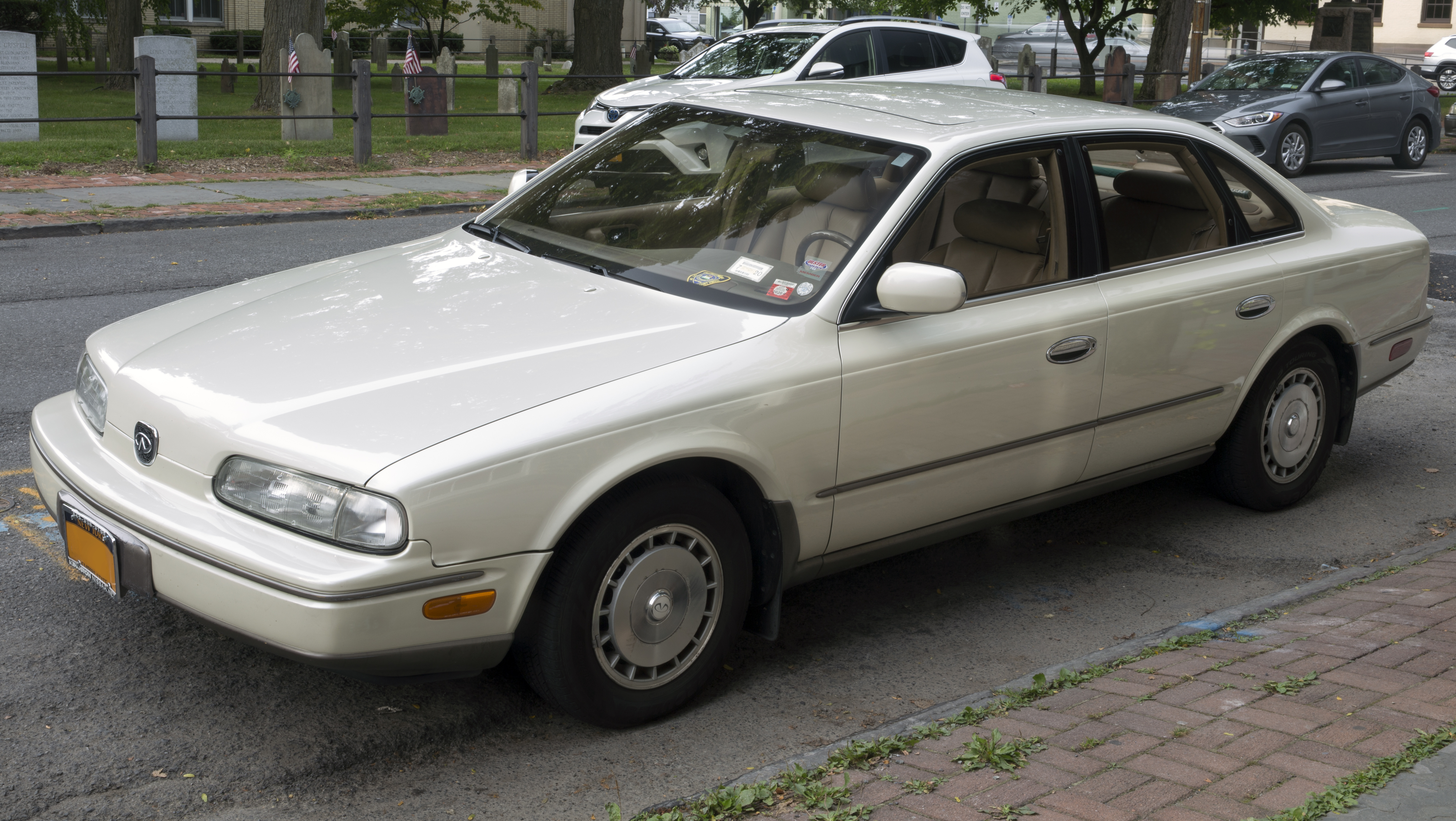 A 1993 Infiniti Q45 in Kingston, NY. This color, while horrible, is de rigueur for pre-facelift 1st generation Q45s.